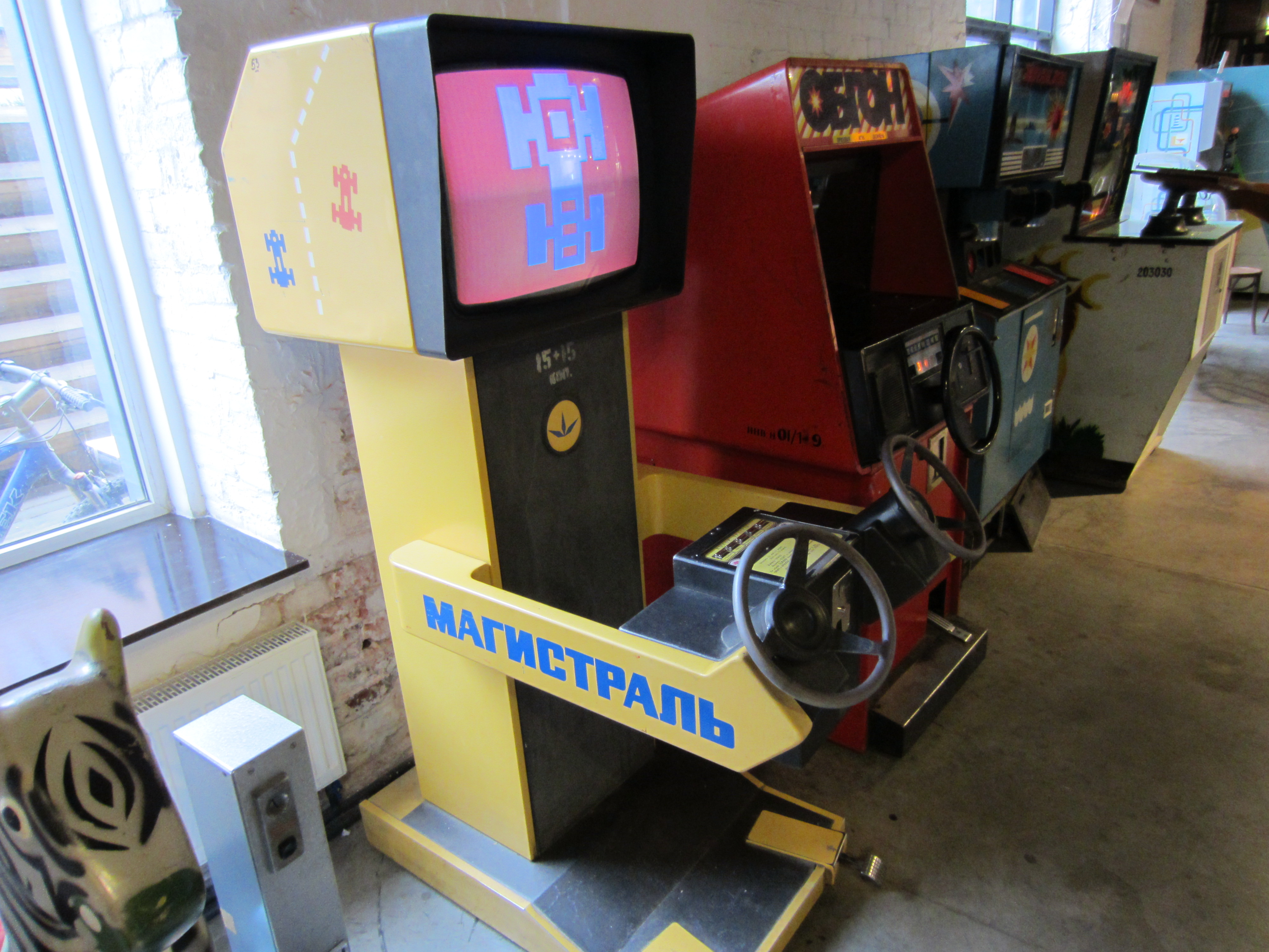 Magistral (Магистраль) arcade game in the Museum of Soviet arcade machines in Moscow.